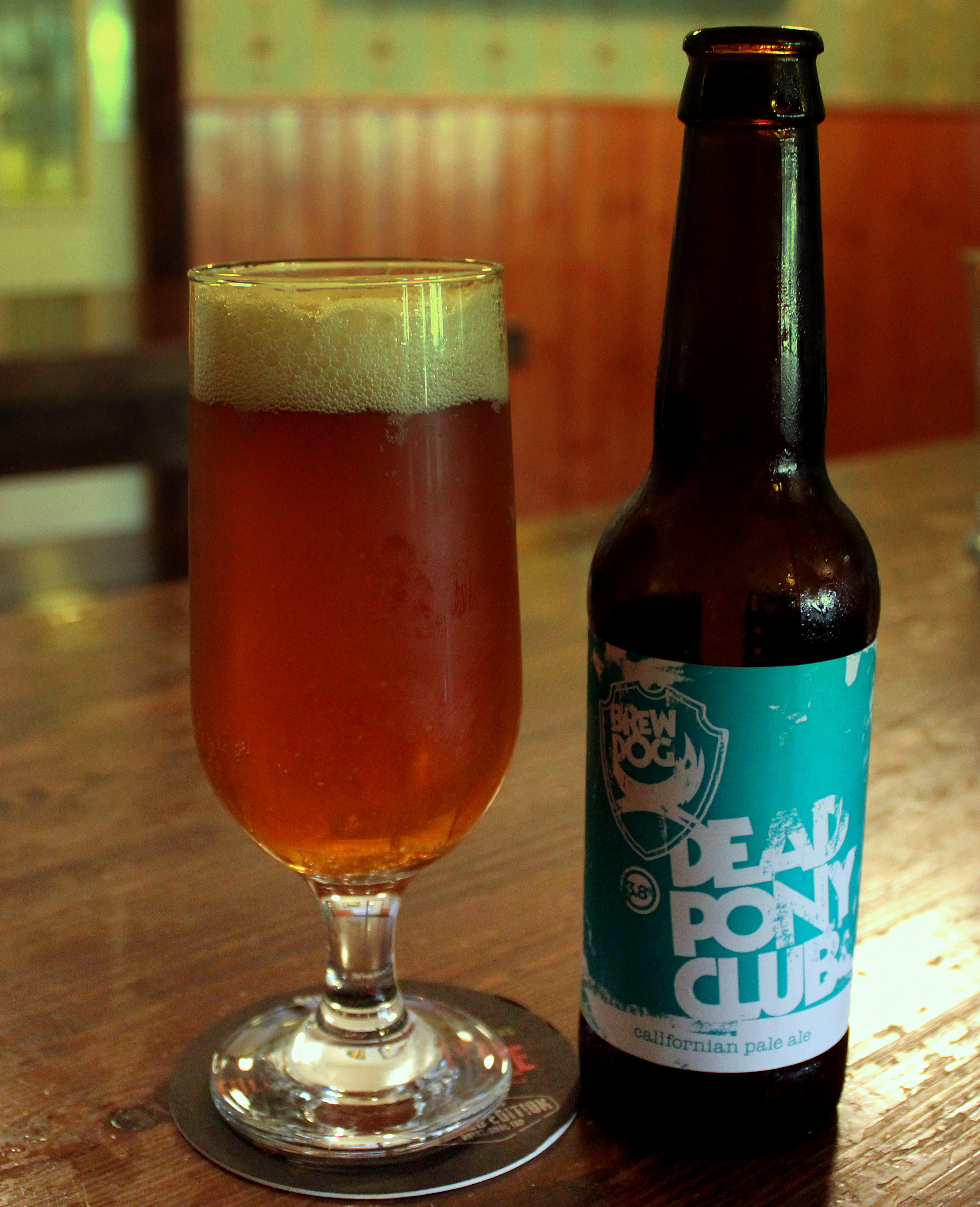 BREW DOG DEAD PONY CLUB CALIFORNIA PALE ALE AT THE OSLO MICROBREWERY SALTHILL GALWAY BAY IRELAND JULY 2013